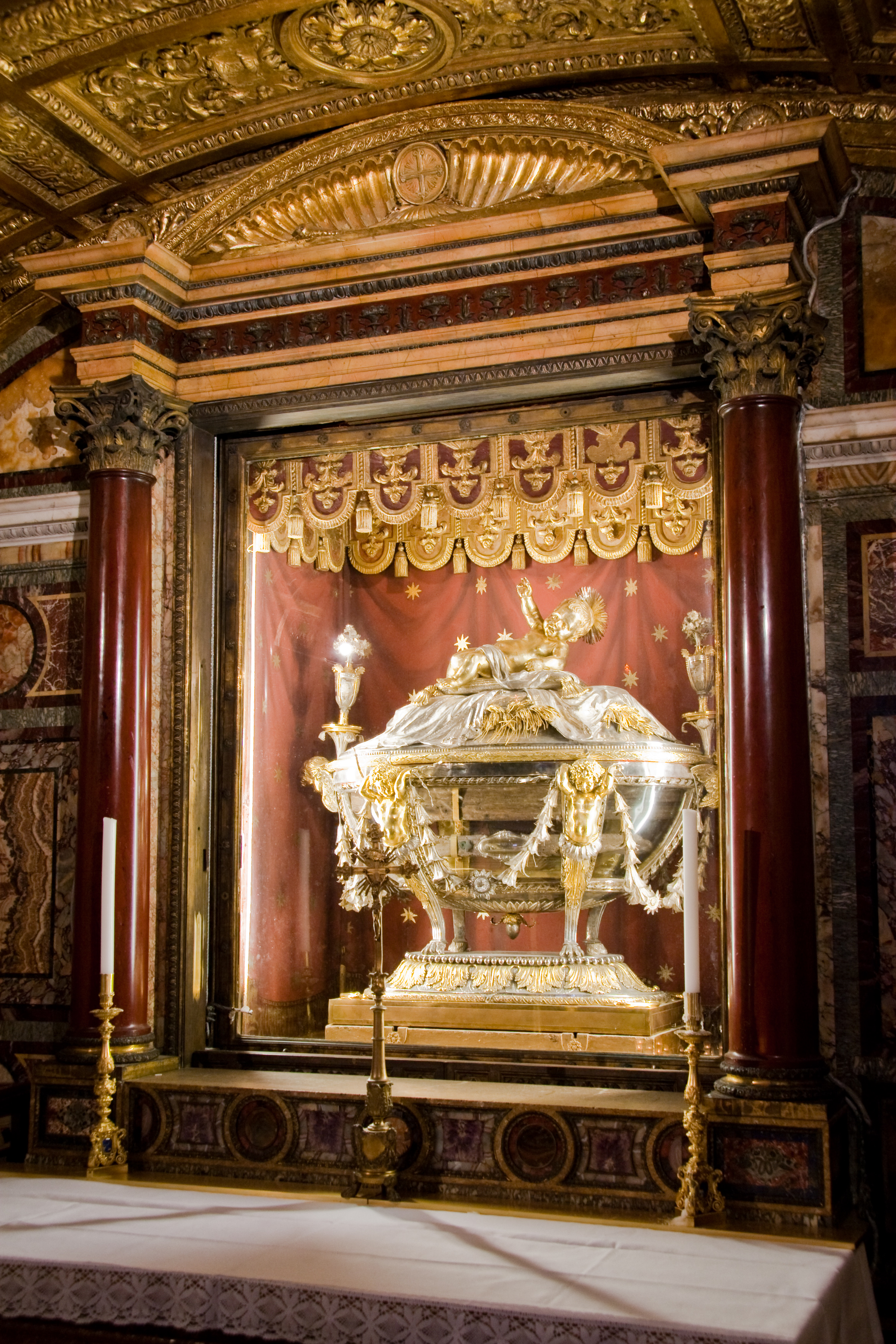 The Basilica di Santa Maria Maggiore is a church on the Esquilino in Rome, Italy. 41°53′50.4″N 12°29′56″E / 41.897333°N 12.49889°E